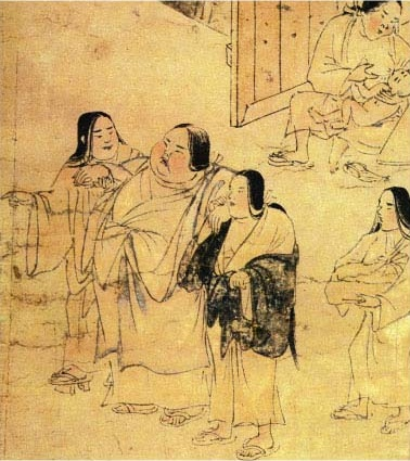 a depiction of obesity from the the 病草紙 scroll